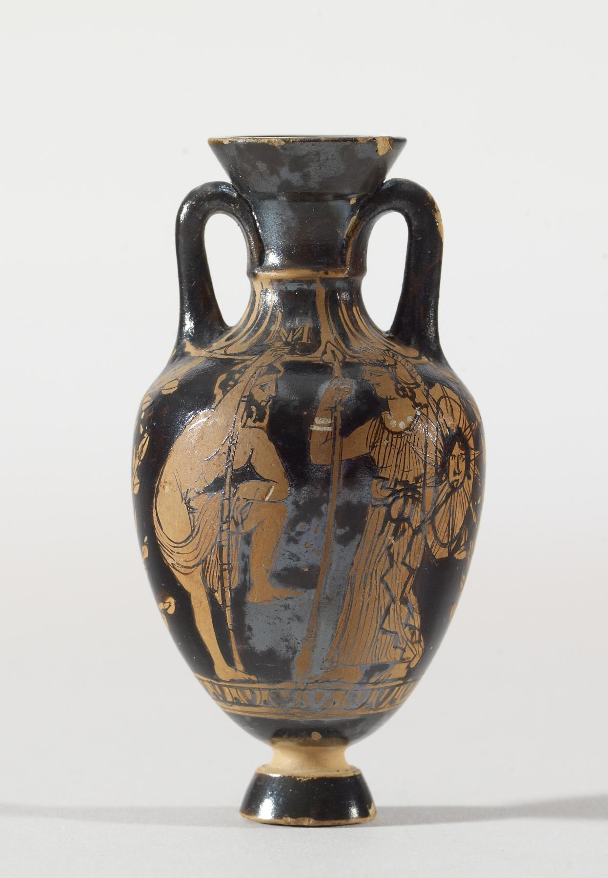 This amphora with a flaring offset mouth depicts Poseidon and Athena on one side and Hermes on the other. Poseidon stands in profile to the right with his left foot propped up on a rock and his left arm bent and resting on his left knee. In his right hand he holds a trident upright which extends into the ornament above. A mantle is draped around his back, right thigh, and over his left leg. Athena stands to the left holding a spear upright in her right hand, and she has a shield with a Gorgoneion and a star device on her left arm. She wears a peplos girded at the waist, necklace, bracelet, and Attic helmet. Hermes is depicted standing to the left. He holds a kerykeion in his right hand at waist level and wears a pestasos, chlamys, and mask (?). Behind him is a stele on which his left arm rests, while to the left and right are olive trees which fill the areas underneath the handles. The subject matter is not the usual for Panathenaic amphorae, which normally have Athena on one side and athletes on the other. Poseidon and Athena are here depicted calmly standing and facing one another on the front, a juxtaposition which brings to mind their contest for the city of Athens. This story is first known to have been depicted in the west pediment of the Parthenon, but there is no sign of strife in our scene. If Hermes wears a mask, as the black line running from his chin up suggests, the scene may in some way have been influenced by a dramatic performance. The generally poor quality of drawing, however, makes it impossible to determine if the painter meant to indicate a mask or not. The olive trees beneath the handles are approporiate fillers because of the tree's association with Athena, the story of the contest, Panathenaic ampohorae, and the Panathenaia.